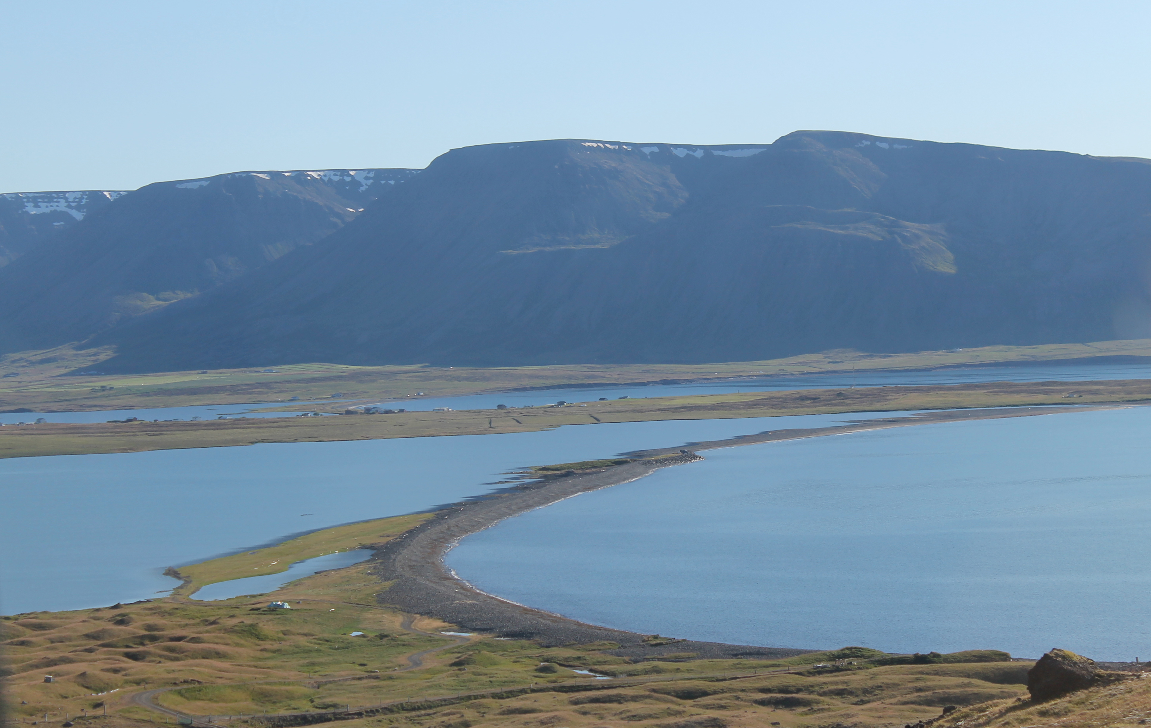 Hraunamöl, a gravel bar that separates Lake Miklavatn from the sea in Fljót, Skagafjörður, Northern Iceland.